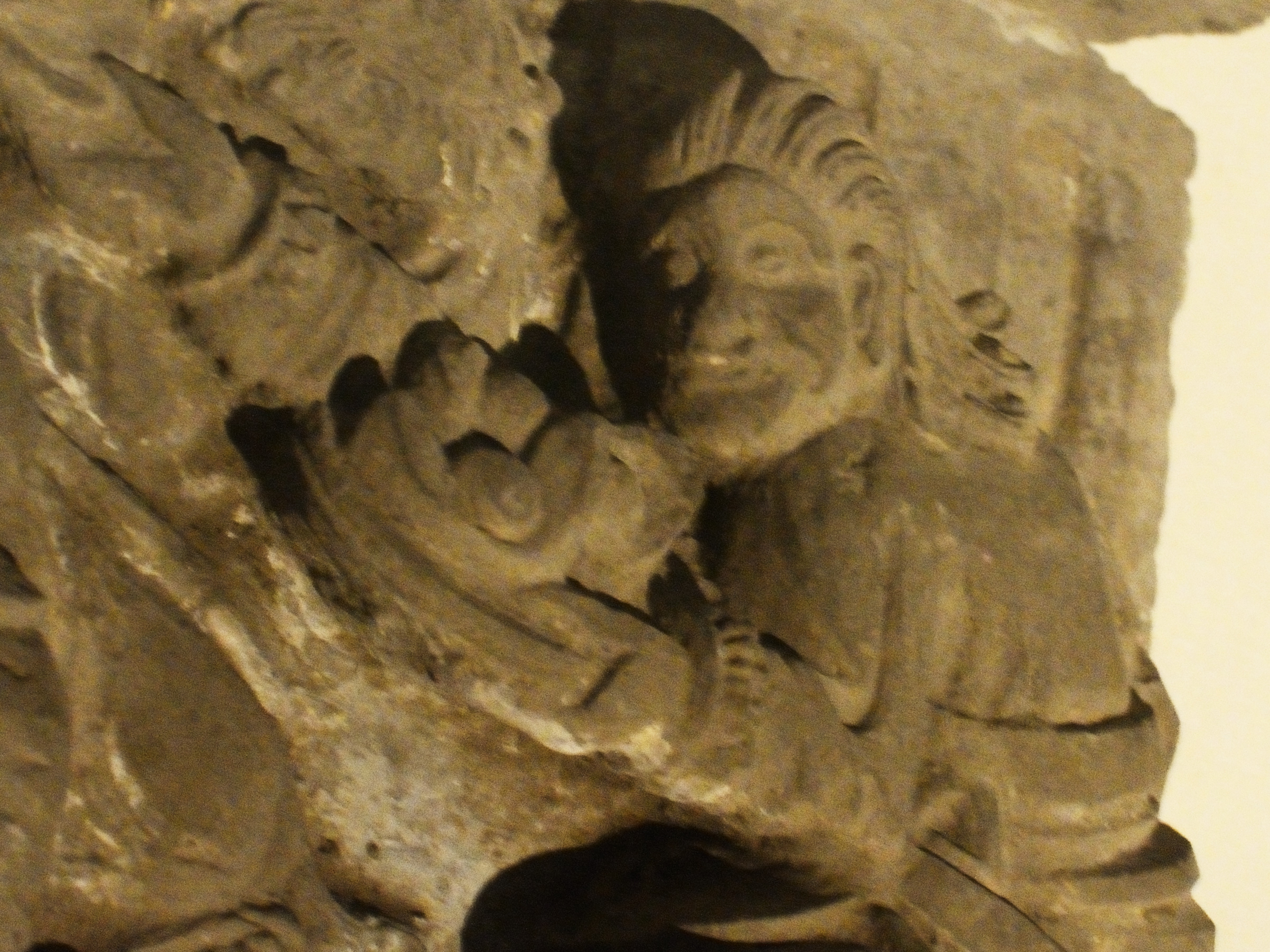 Westerner's appearance on Ningbo brick curves, displayed in Ningbo Library